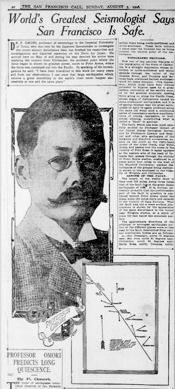 Image of Fusakichi Omori and his hand-drawn map of the San Andreas Fault accompanying an article he wrote for the San Francisco Call newspaper, 05 August 1906. Dr. Omori was a pioneering seismologist and the head of the Imperial Committee to investigate the 1906 San Francisco Earthquake. He traveled the full length of the map shown, describing and photographing effects of the earthquake on California landscapes, homes and buildings.